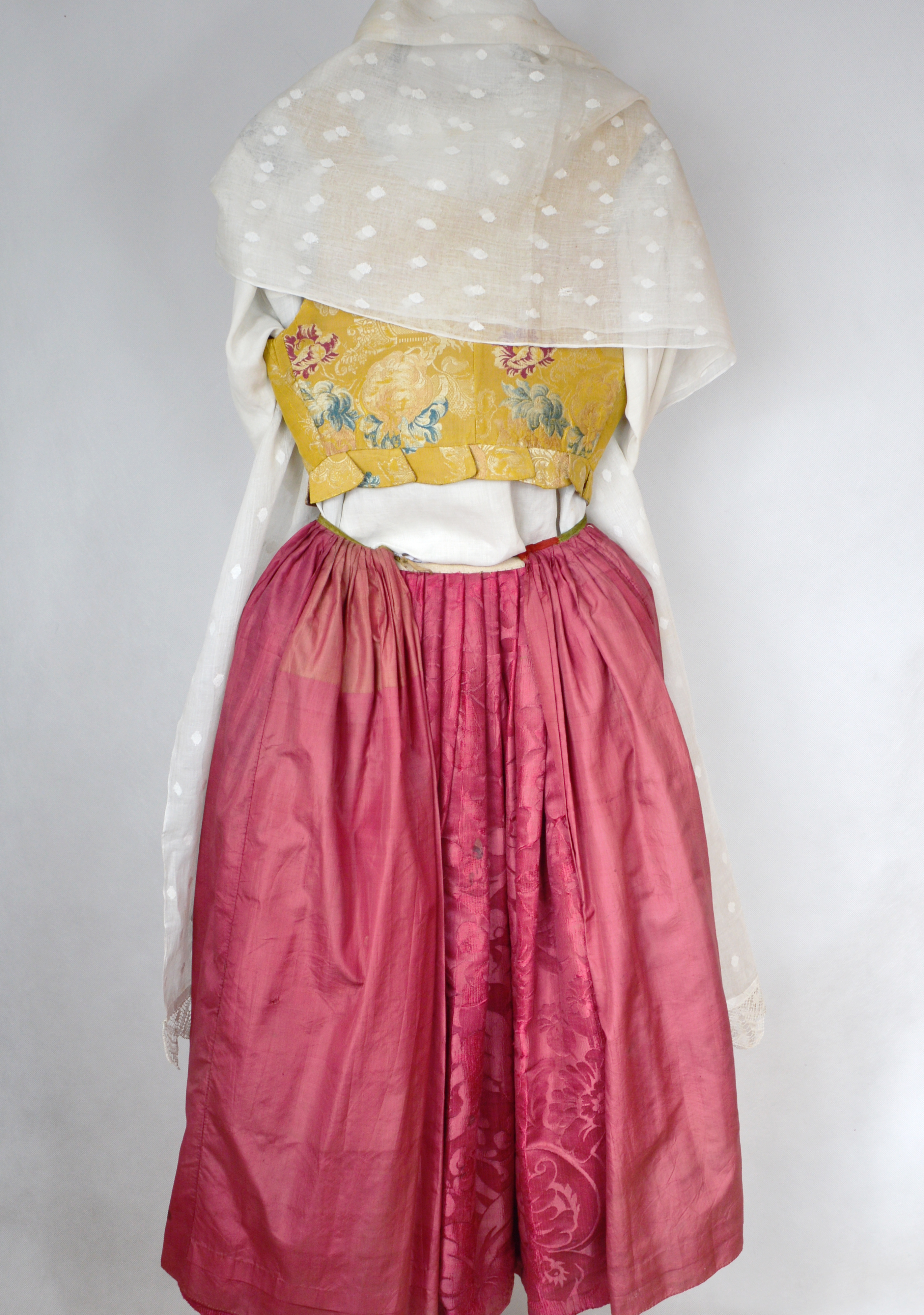 Women's outfit composed of original elements from XIXth century, from the collection of Tatra Museum.